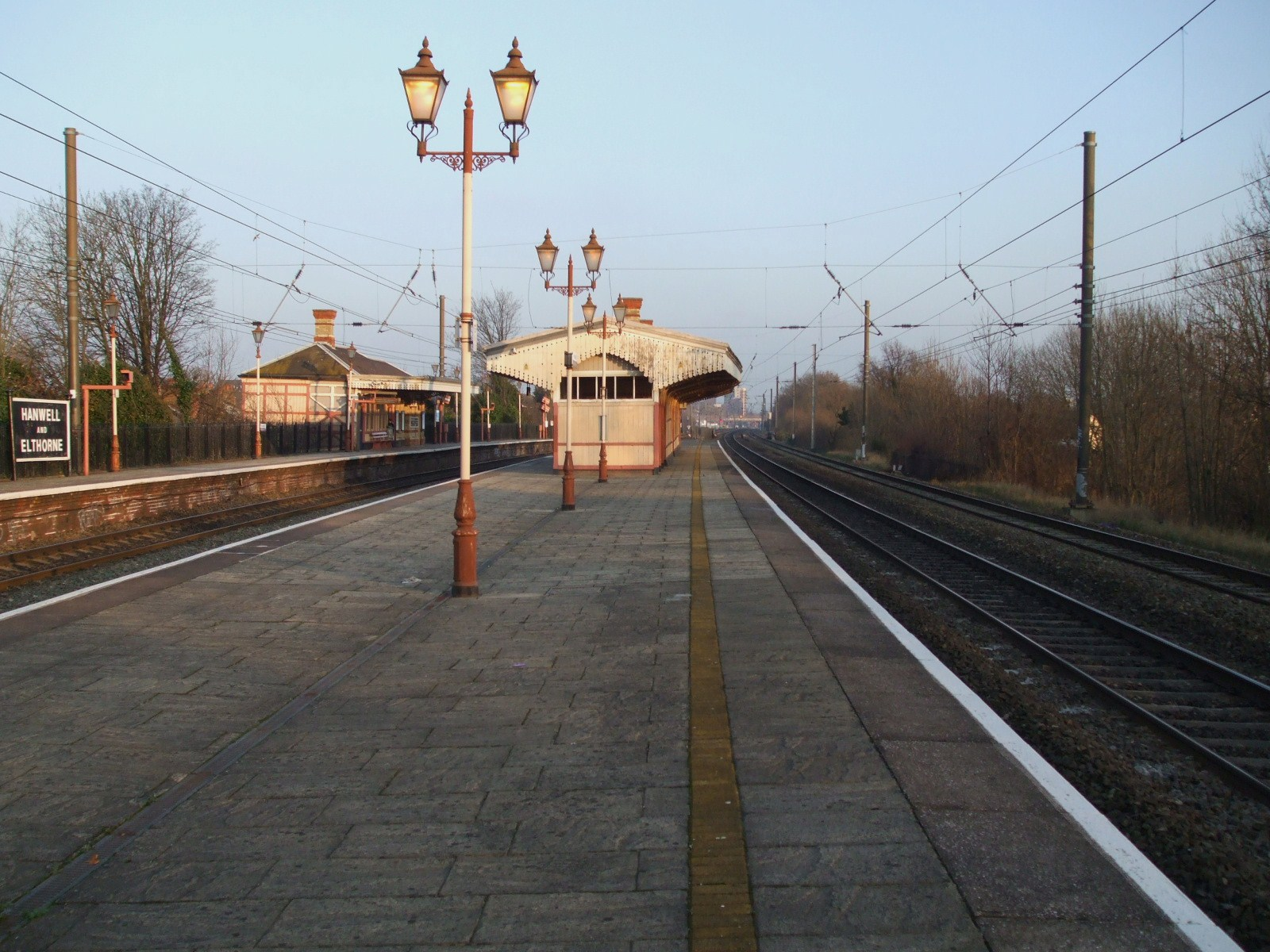 Hanwell station 'up fast line' looking east along platform one (towards London). Note lack of platform on the 'down fast line', as well as the old-fashioned sign on the slow platform, part of an attempt to depict the station as it appeared in the early 20th century.